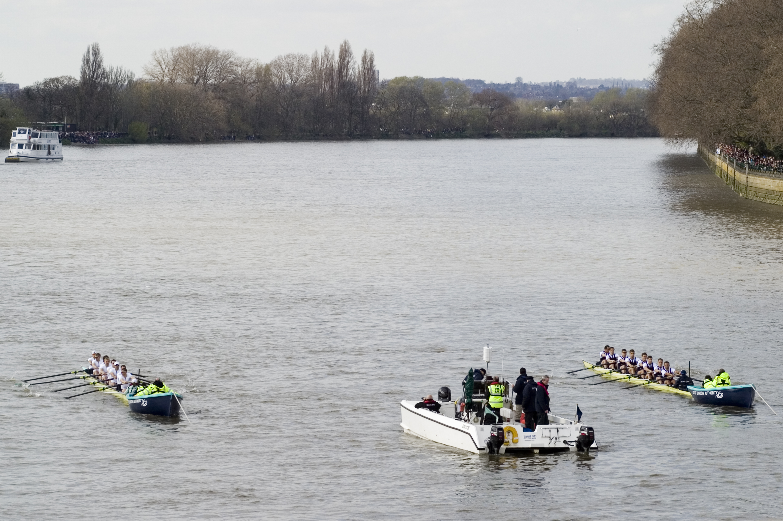 The first stroke at the start of the 2009 Oxford and Cambridge Boat Race, viewed from Putney Bridge. The crews are next to the moored stake boats: in 2009 Cambridge had the south "Surrey" station and Oxford had the north "Middlesex" station.